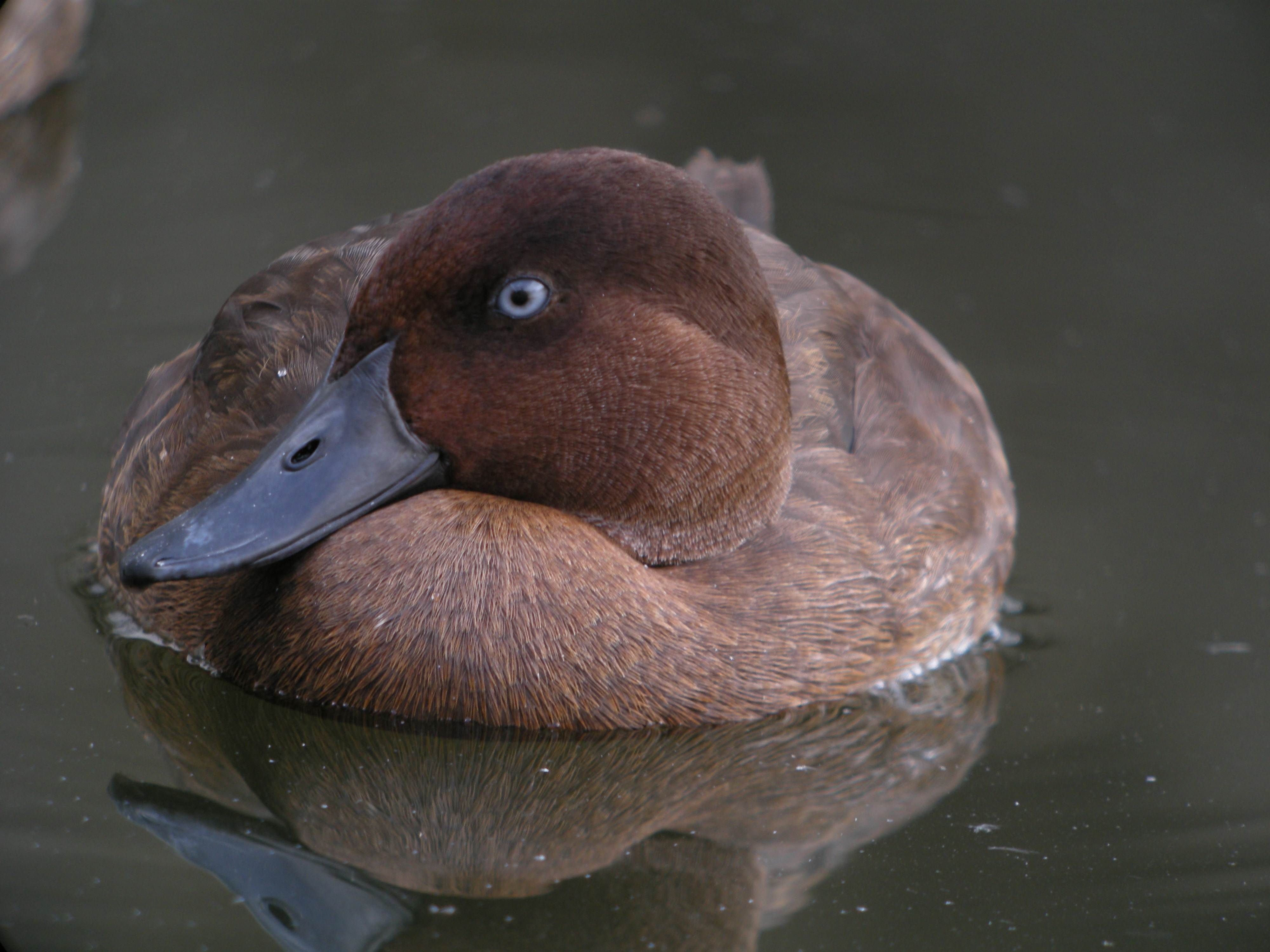 Madagascar Pochard, Captive Breeding Program, Madagascar The Madagascar Pochard was considered extinct until 2006, when a few dozen birds were rediscovered on a remote volcanic lake in northern Madagascar. This is a first-year male, easily recognisable by its pale-blue iris. Swarowski 80 HD 30 X, Coolpix P5100 (Adapter DCB)